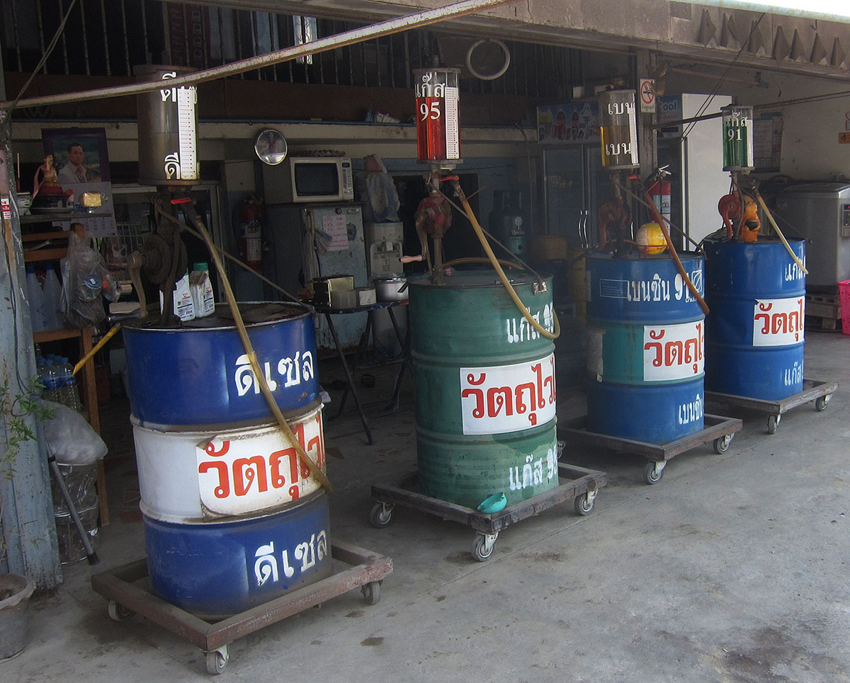 This type of shop is common in rural Thailand and perhaps in other parts of the world. It provides fuel that is typically hand-pumped from barrels or drums for motorcycles.